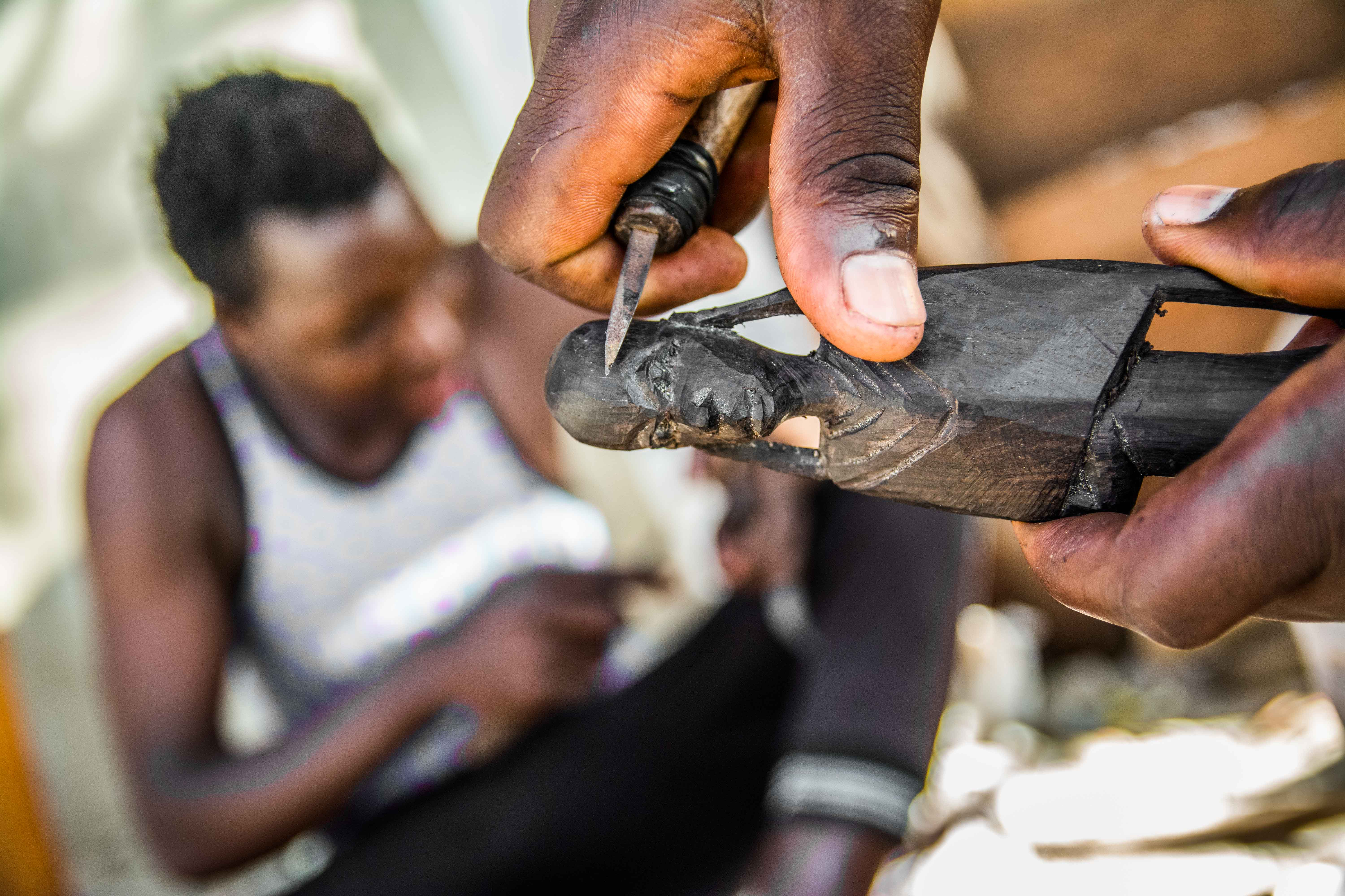 This is an image of Cultural Fashion or Adornment from Tanzania